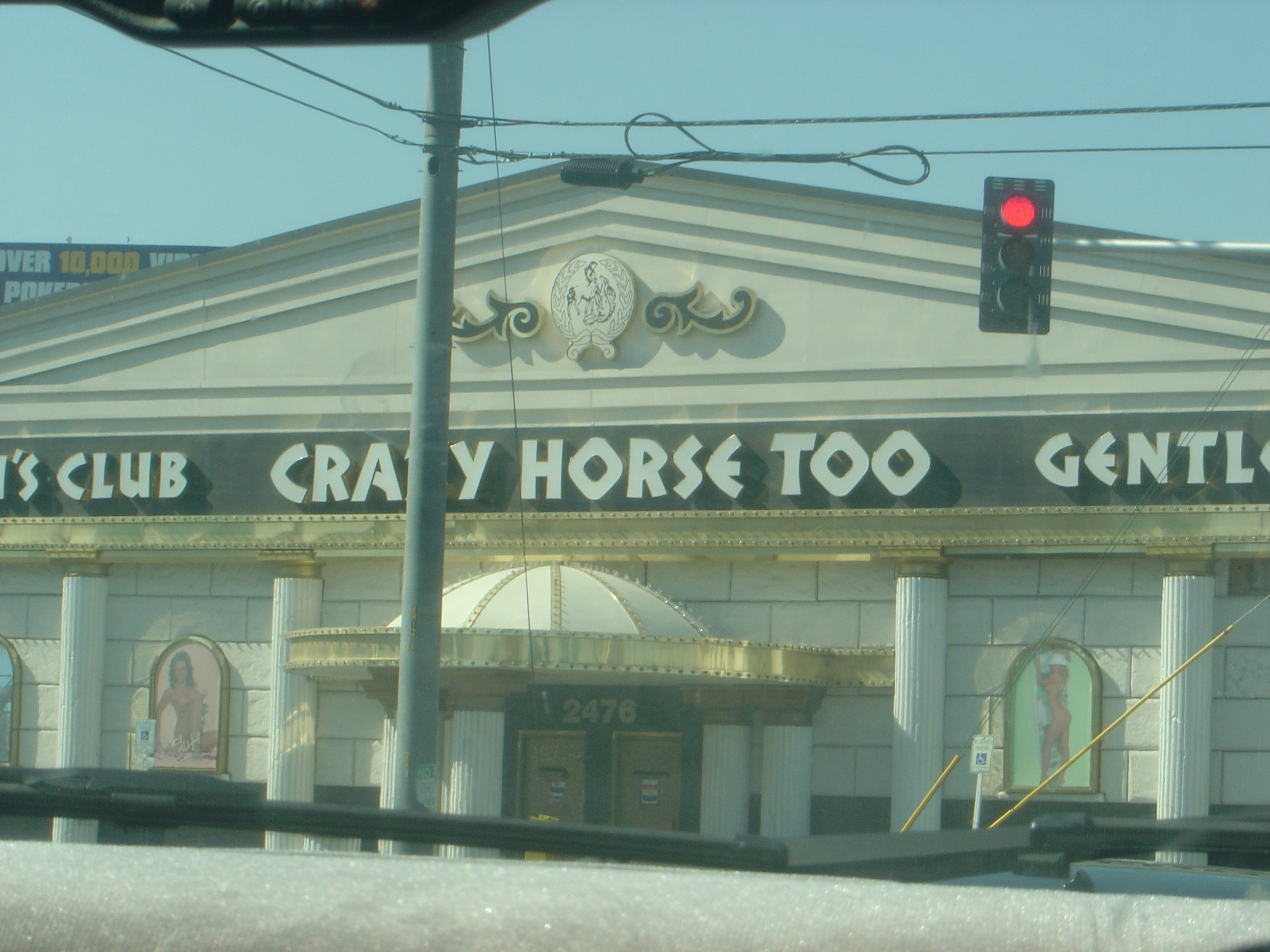 The closed Crazy Horse Too strip club in Las Vegas.